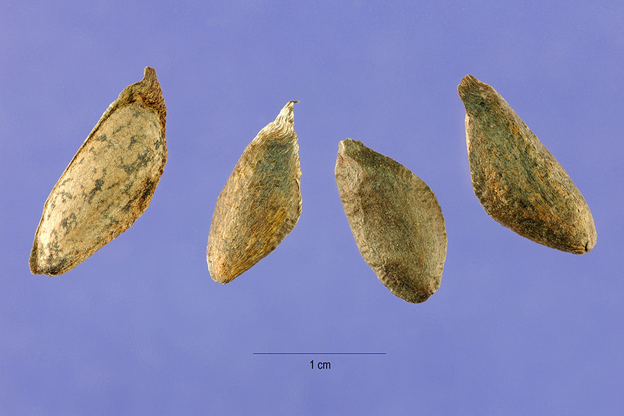 Seeds of Canary Island Pine (Pinus canariensis)